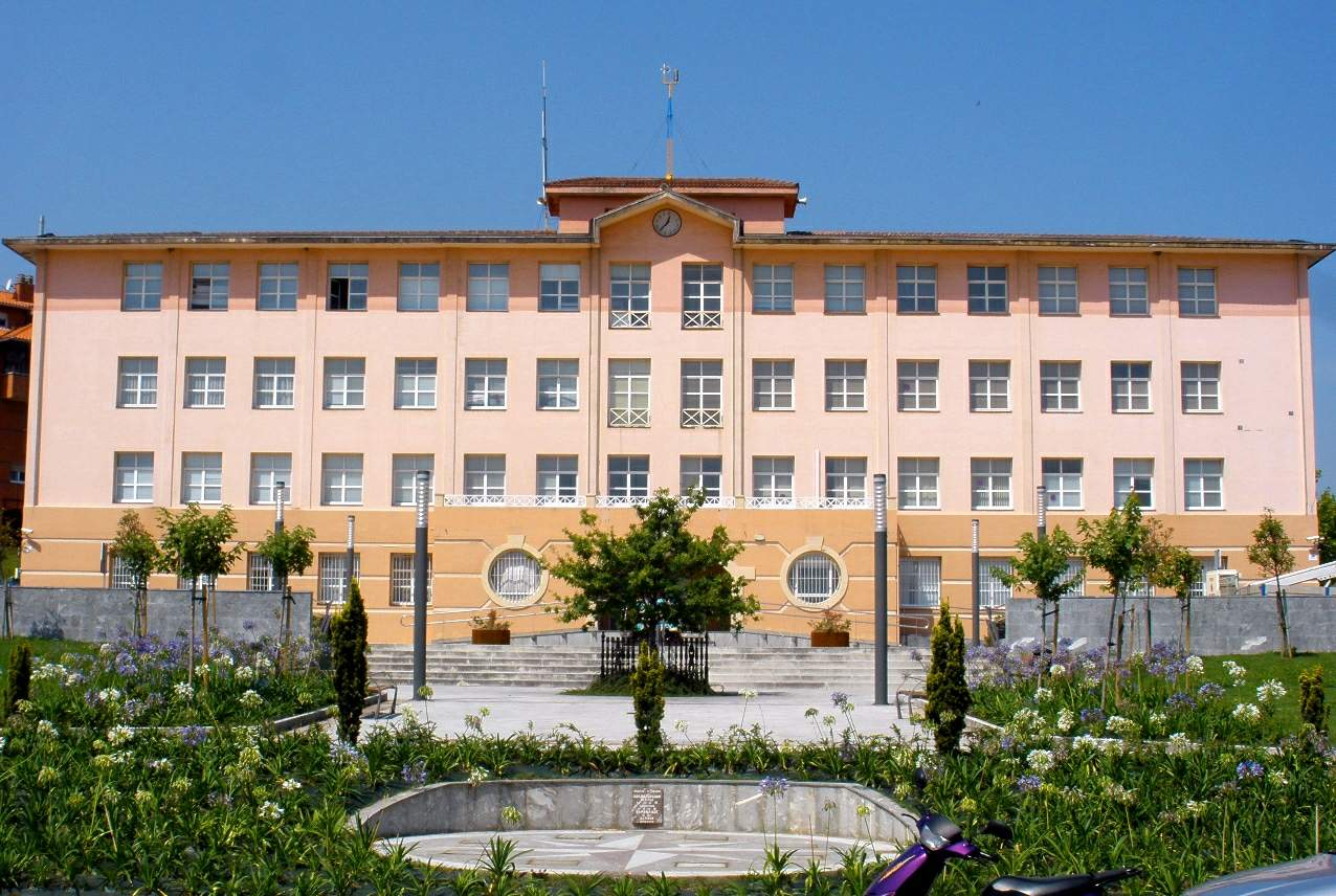 Ayuntamiento de Abanto-Zierbena, en Gallarta